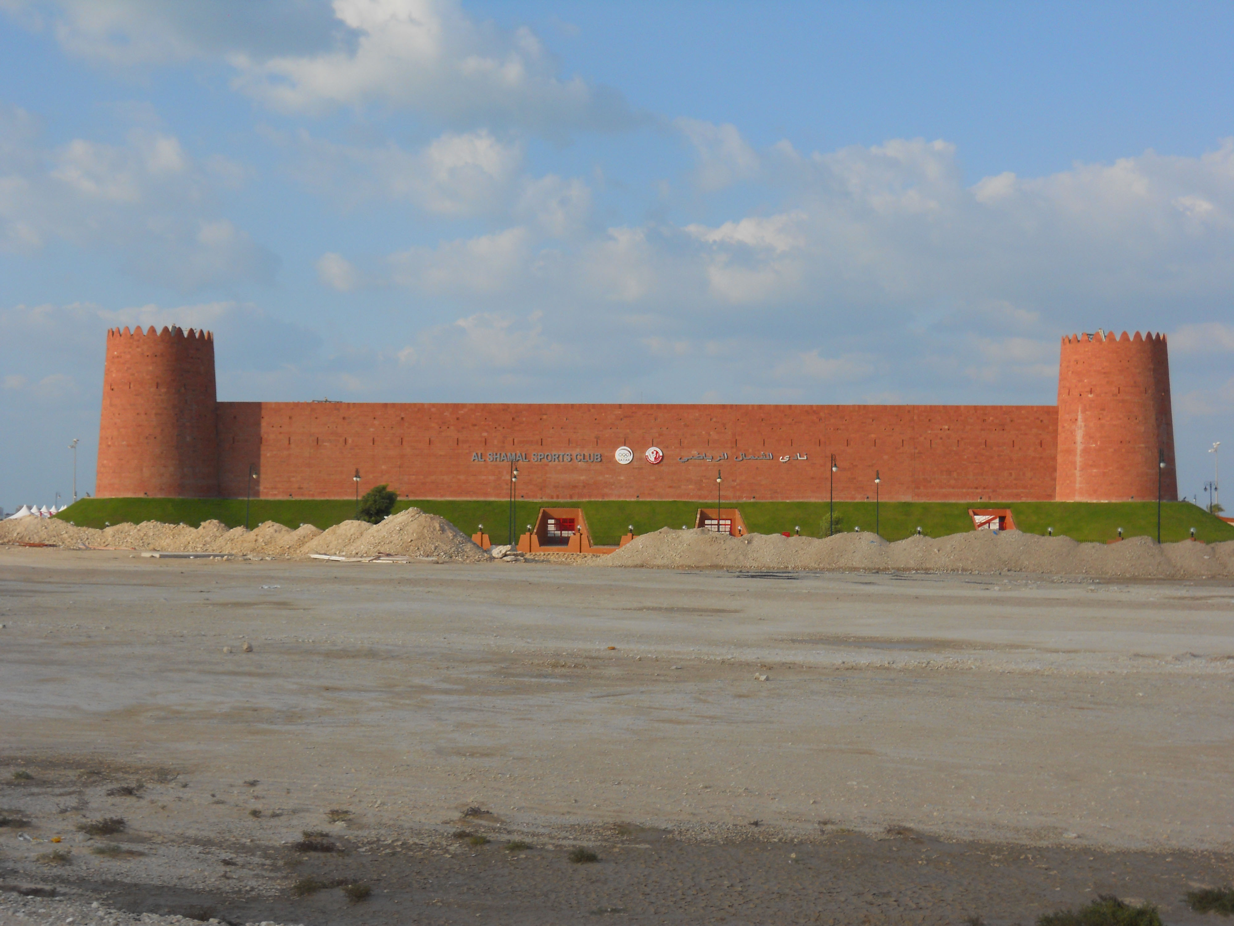 A view of Shamal Sports Club from North road.